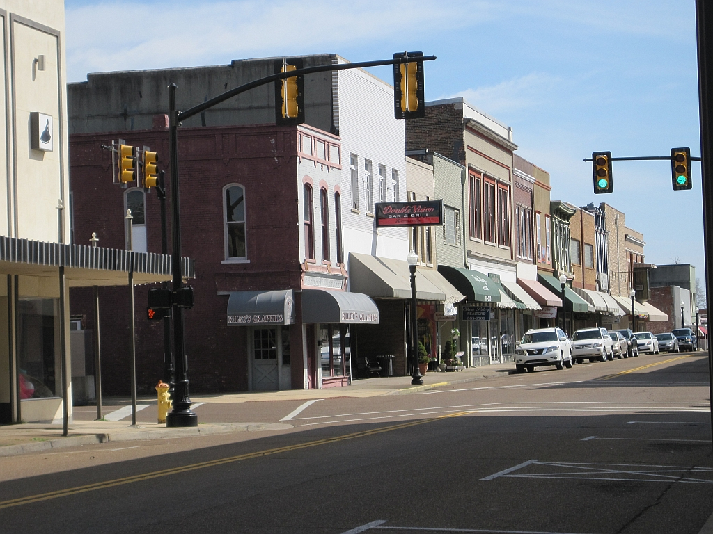 Union City in Obion County, Tennessee.